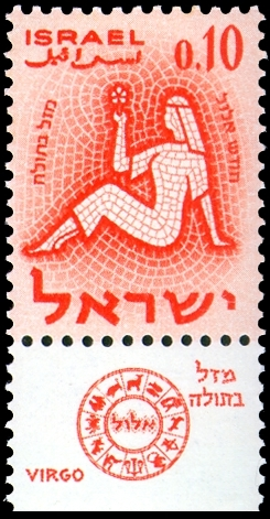 Zodiac I stamp - 0.10 Israeli lira - Sign of Virgo, Month of Elul